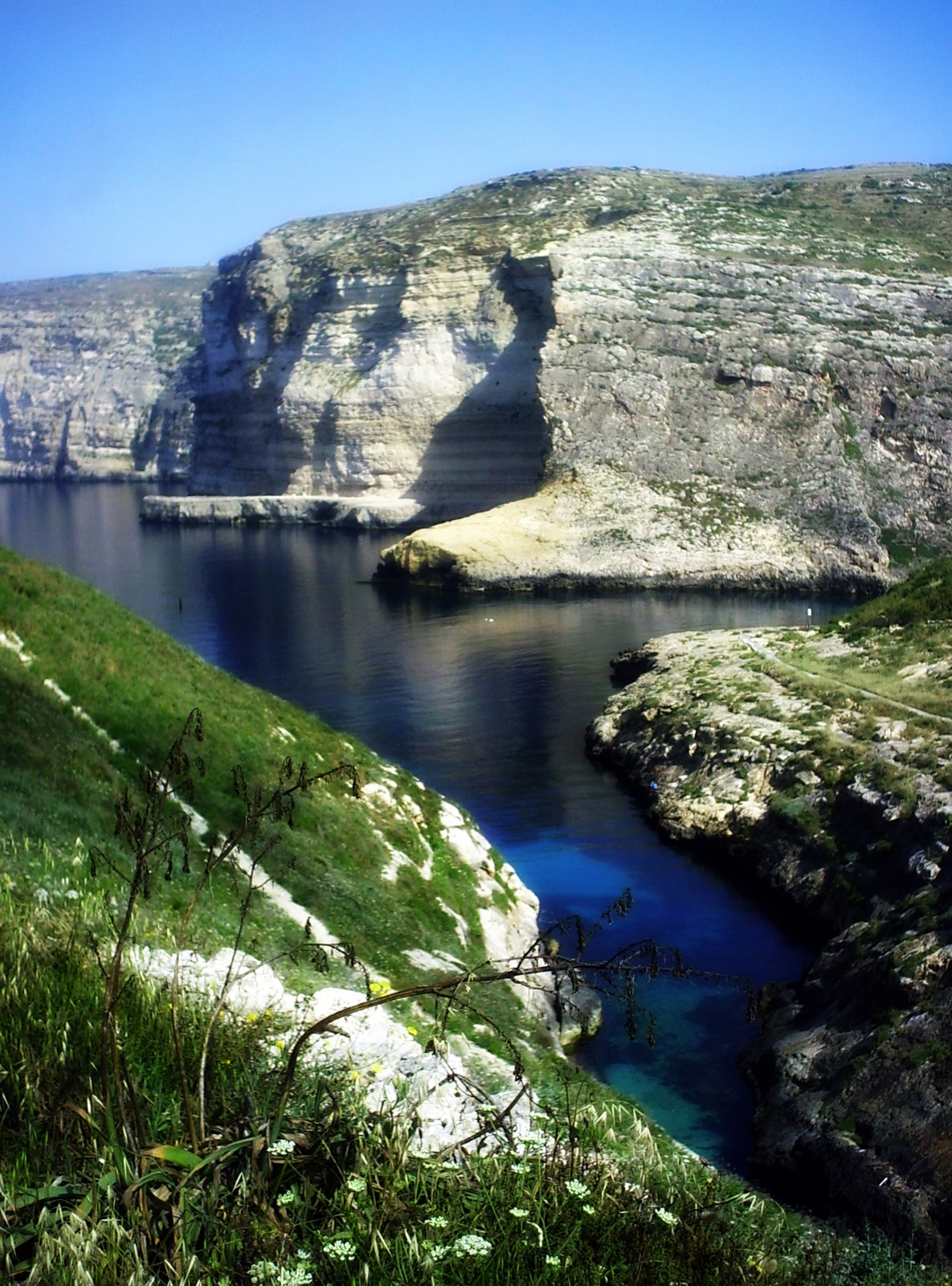 A view of the Kantra found in Xlendi, Gozo.